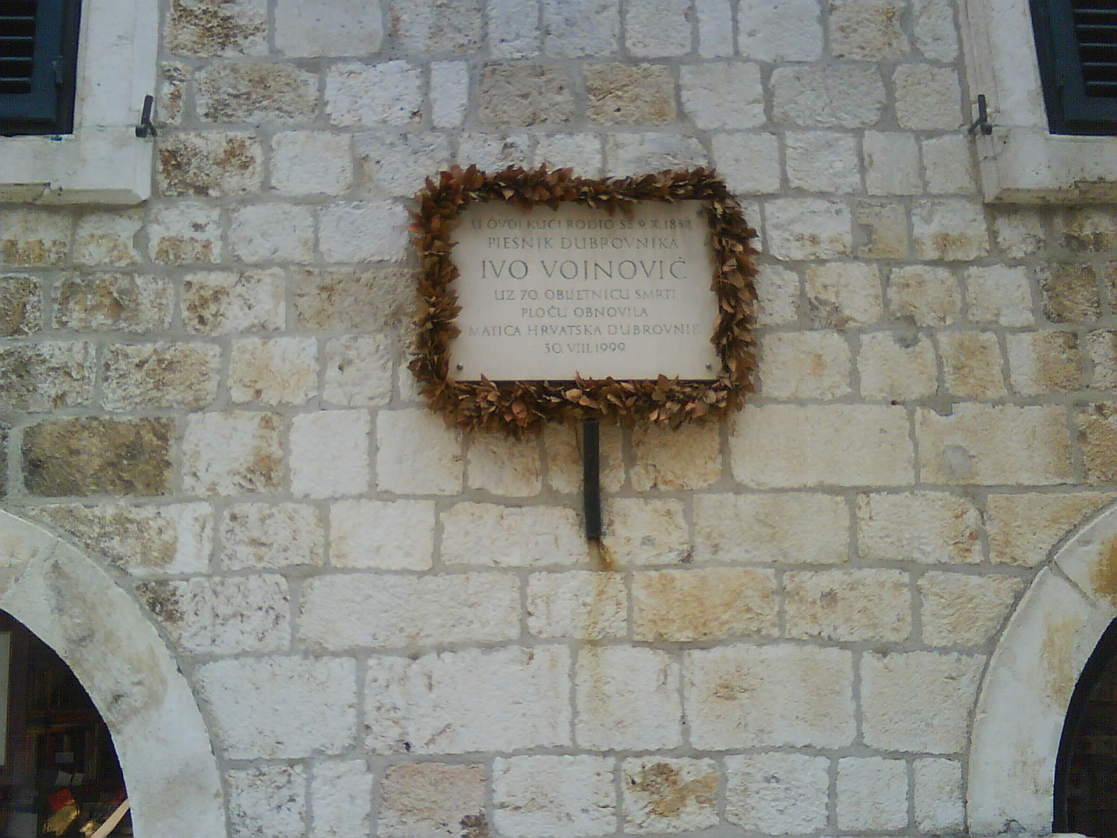 Birth house of Ivo Vojnović